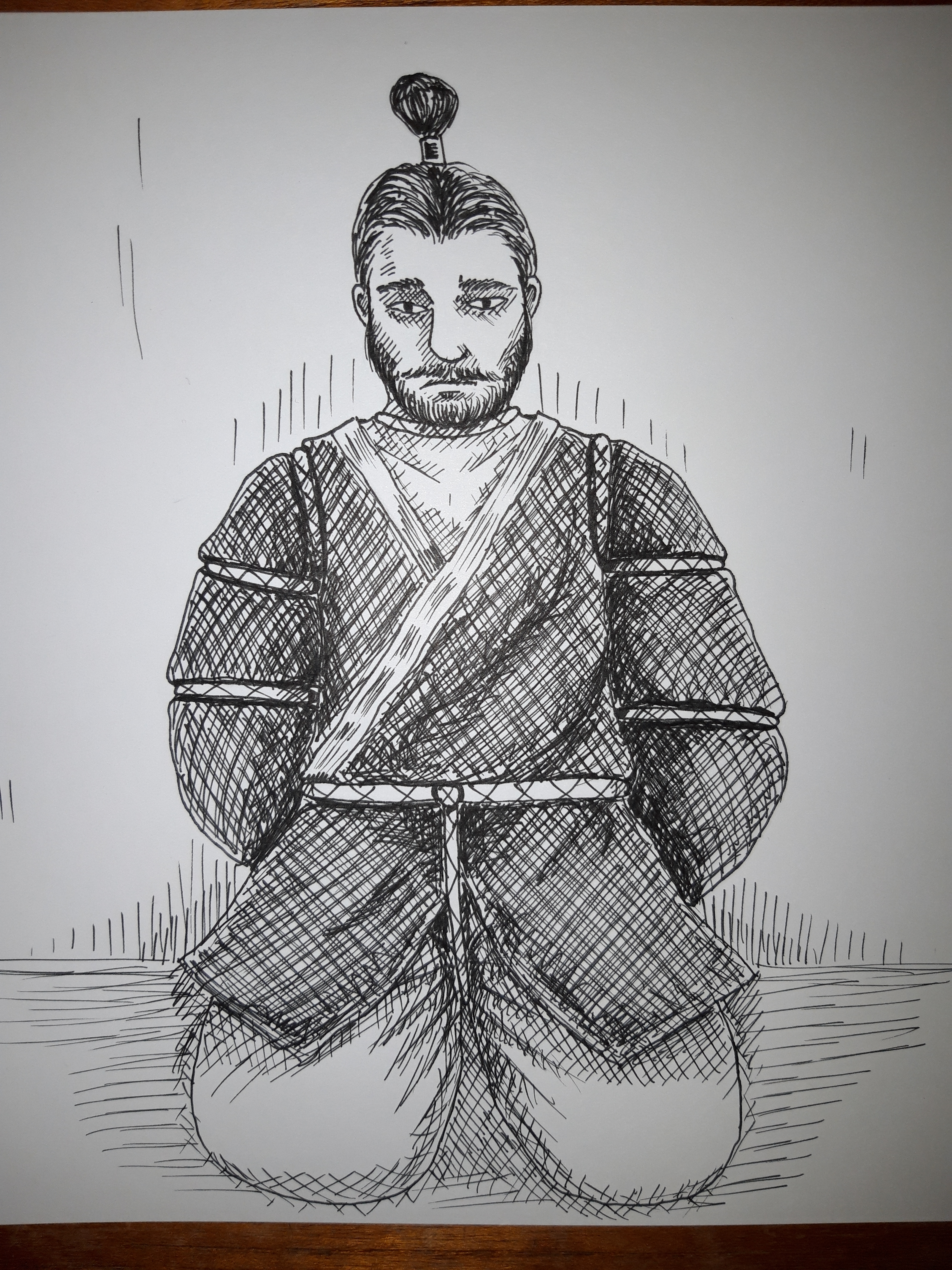 Illustration of a hojojutsu.